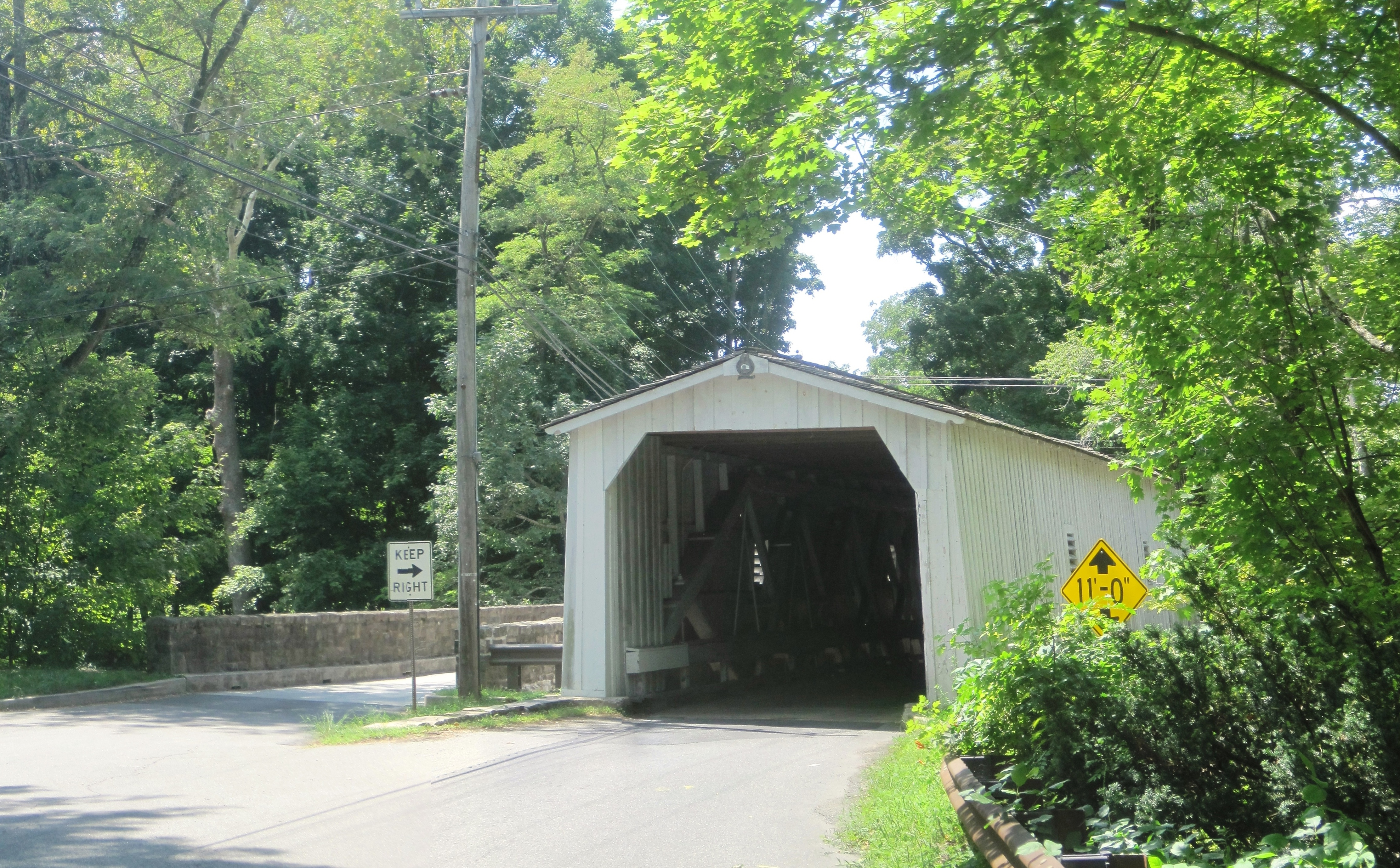 Photo showing Green Sergeant's Covered Bridge, the last historic covered bridge in New Jersey, as seen from Rosemont-Ringoes Road (CR 604) westbound in Delaware Township, New Jersey.